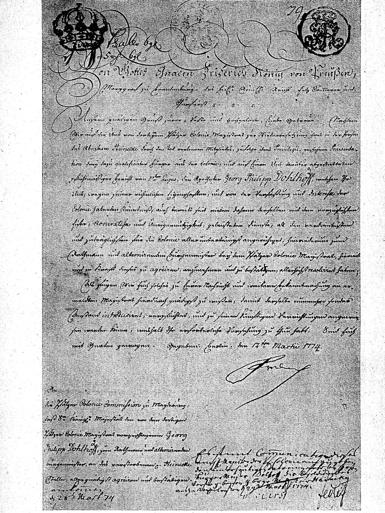 Georg Philipp Dohlhoff wird durch König Friedrich II. zum Bürgermeister ernannt